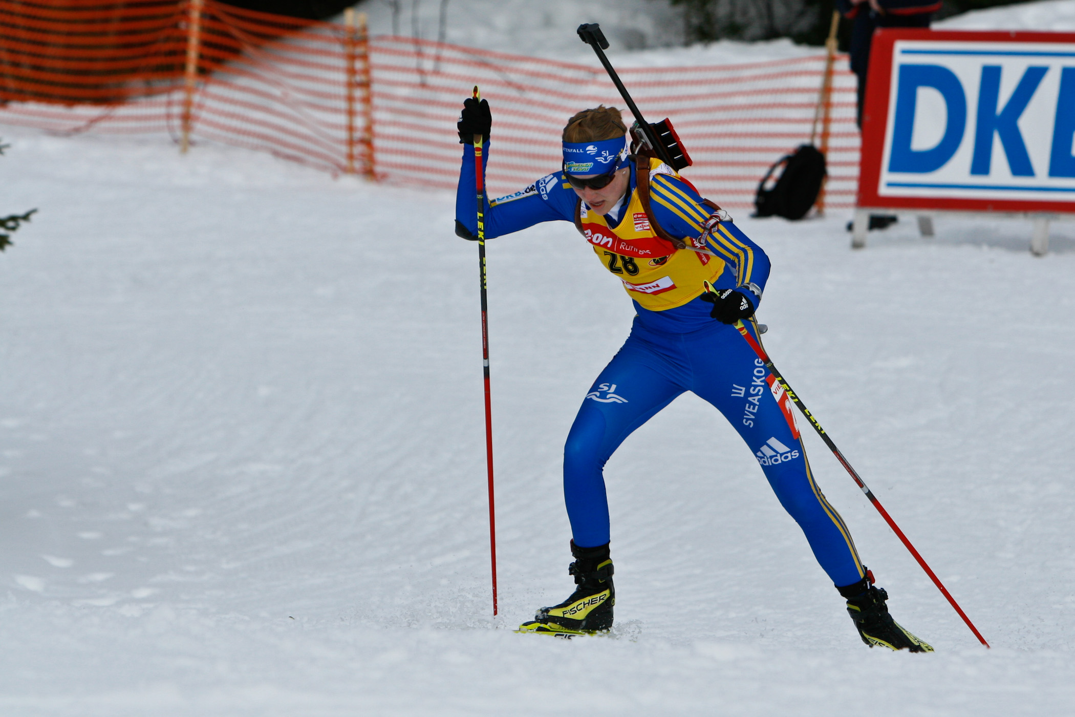 Helena Jonsson at the IBU World Cup Biathlom Trondheim 19 March 2009. The license on this photo was changed on 15 February 2010 from All rights reserved to Creative Commons (CC-BY-SA). At the same time, a bigger version (2100x1400px) of the photo replaced the old one. If you use this picture, remember to give credit according to the license (